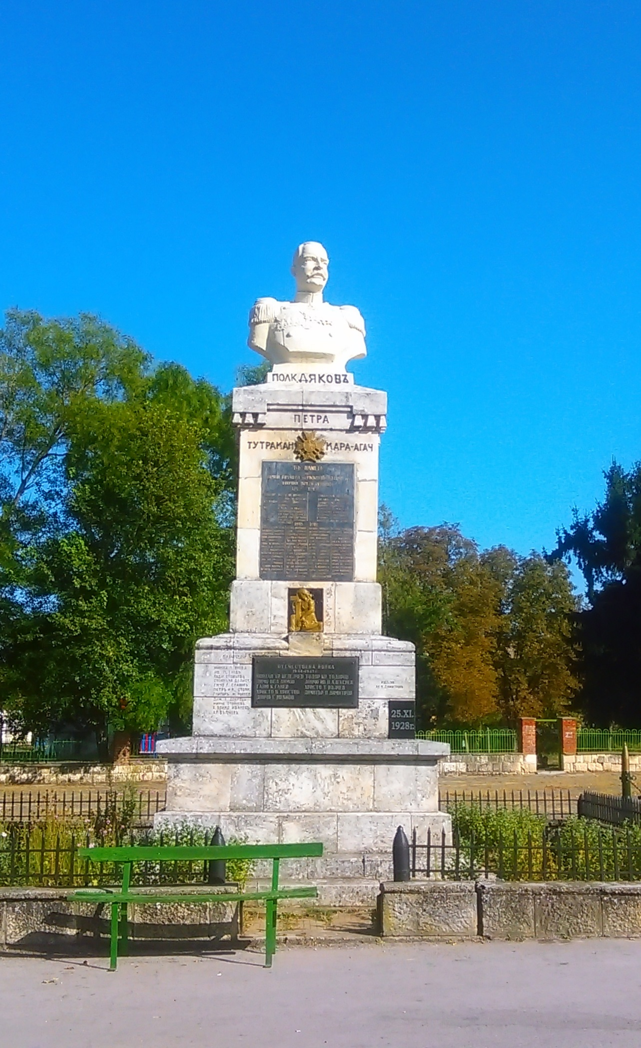 Colonel Anton Dyakov soldiers' monument in Topchii, Bulgaria